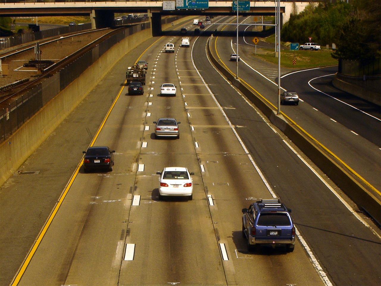 Interstate 66 at Exit 60, in Fairfax County, Virginia. Metrorail Orange Line in median; Vienna station is out of view to left.